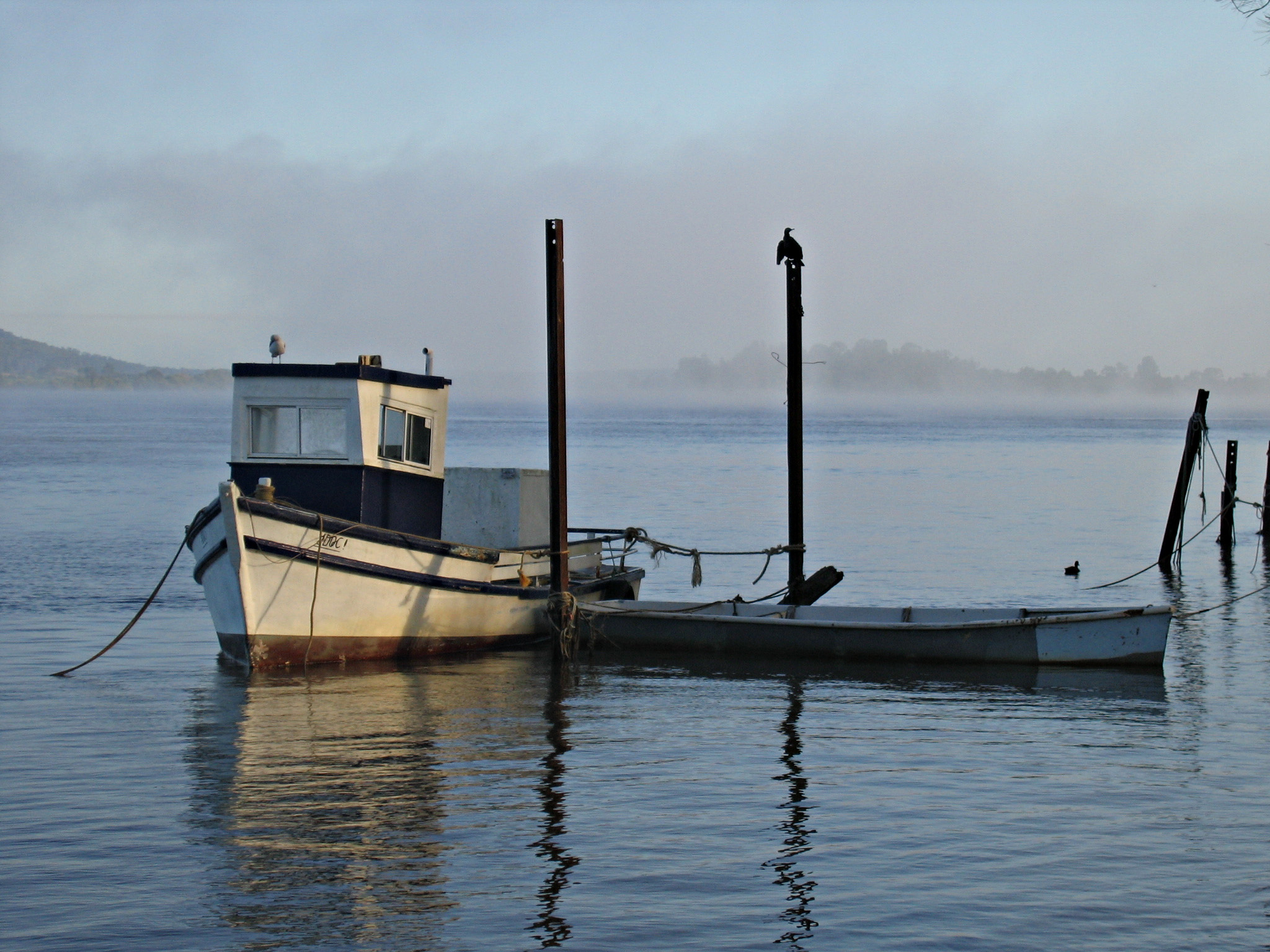 Clarence River fishing boat - 5660